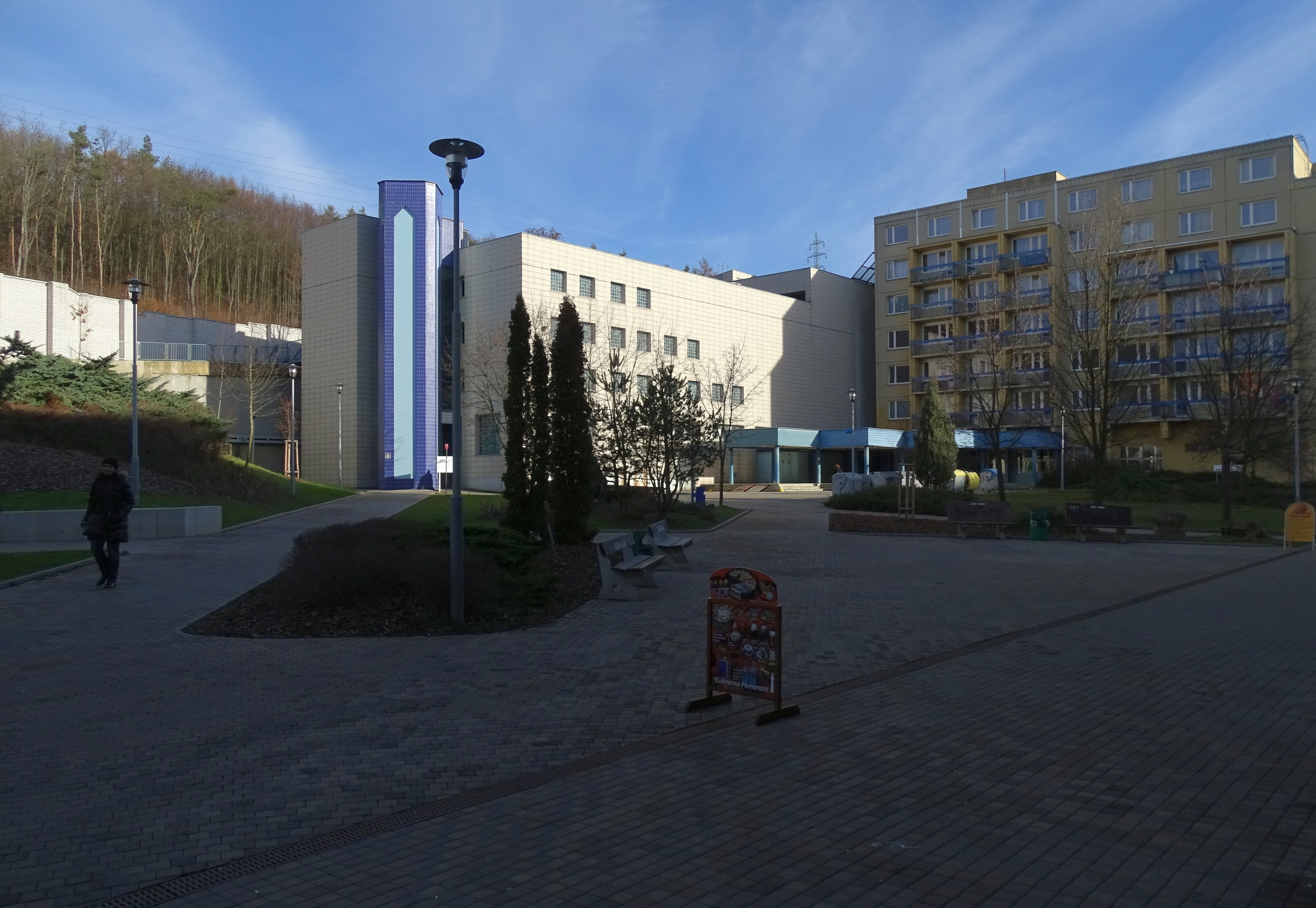 Prague-Motol, Czech Republic. Motol Hospital.